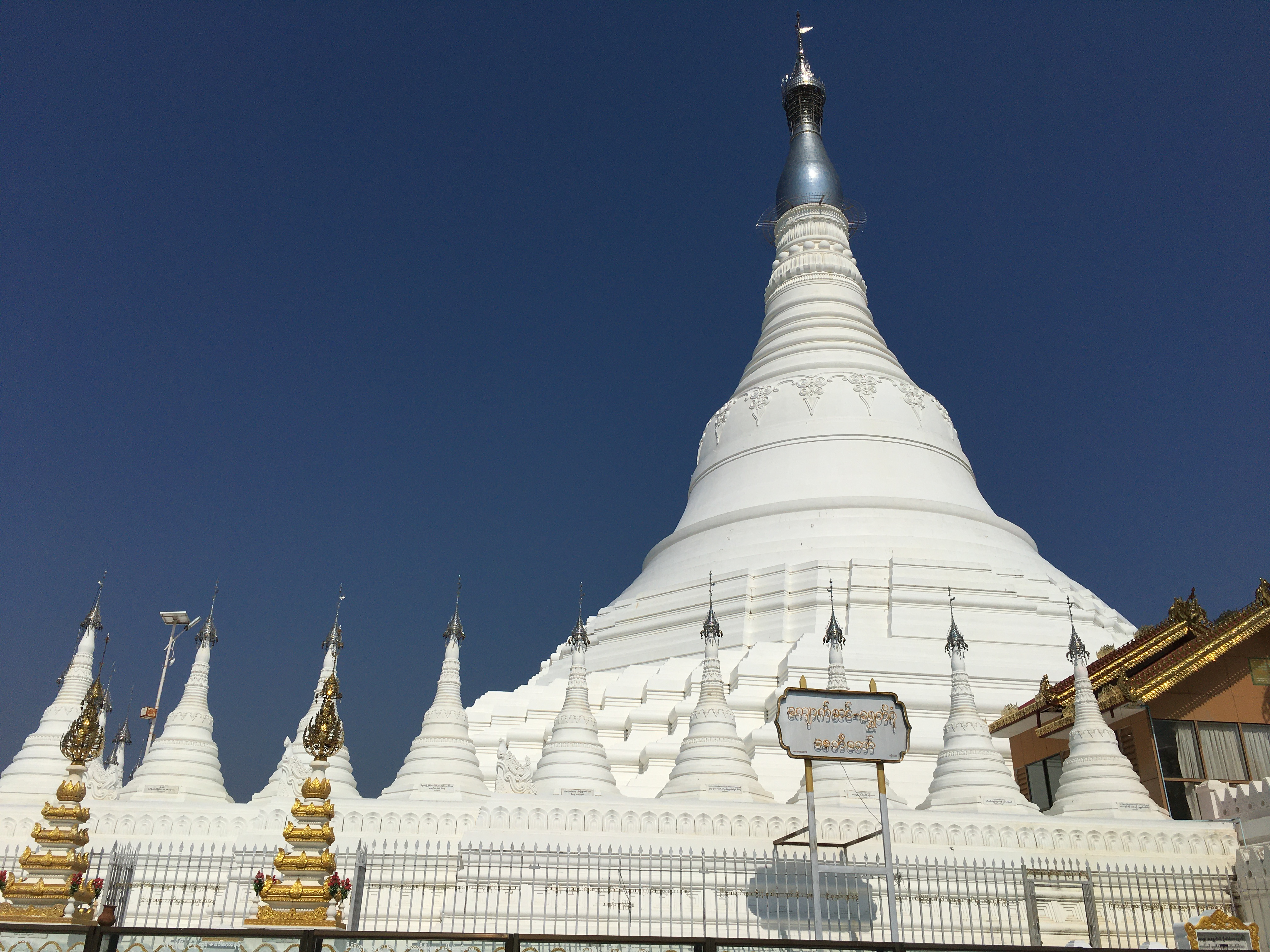 Near Yangon-Mandalay Highway, Laymyethnar, Wundwin Township, Mandalay Region